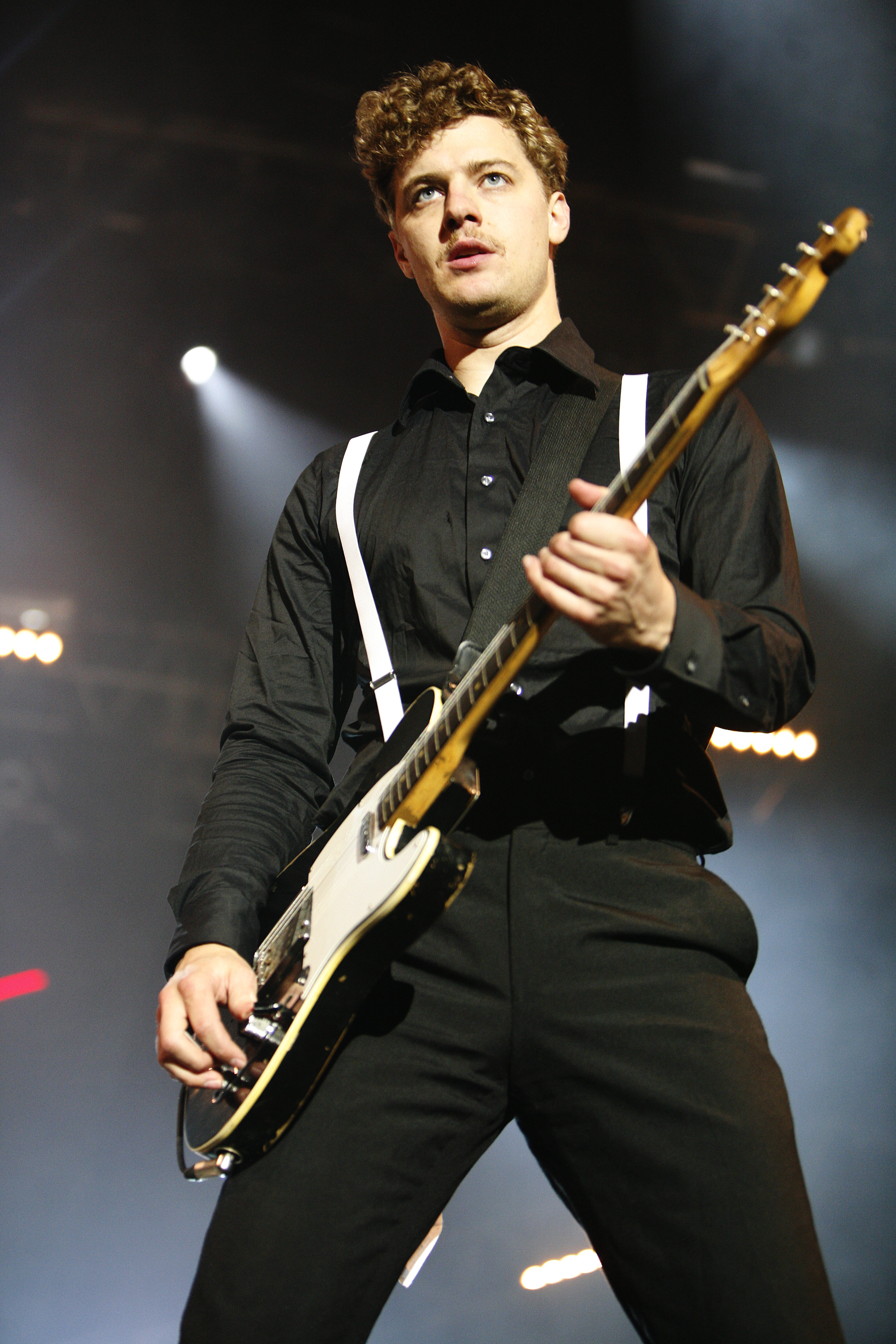 The Hives at the Eurockéennes of 2007